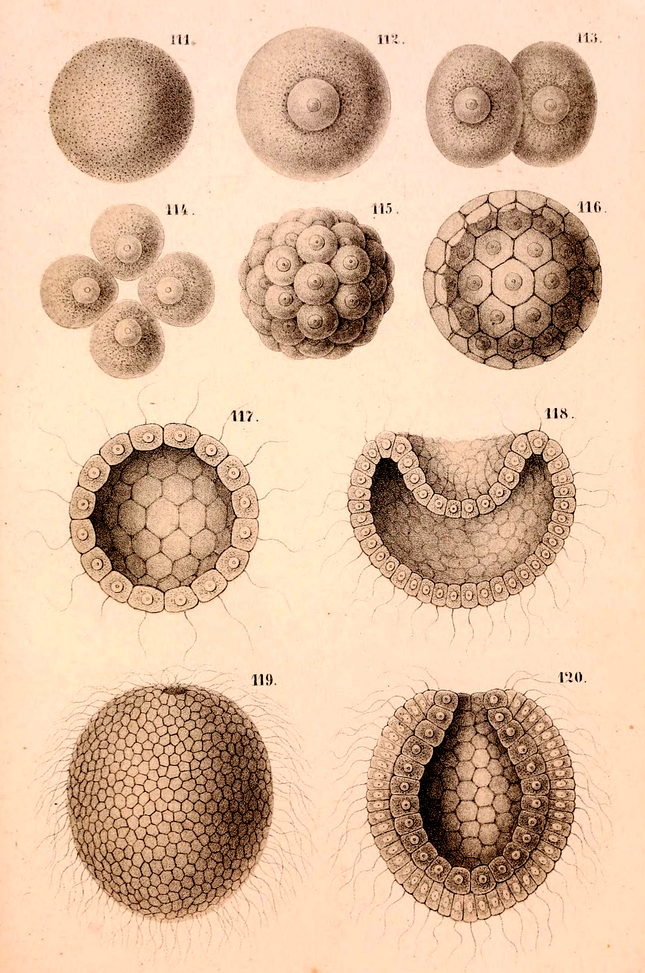 Illustrated in Haeckel, E. 1877. Studien zur Gastraea-theorie Jena : Hermann Dufft